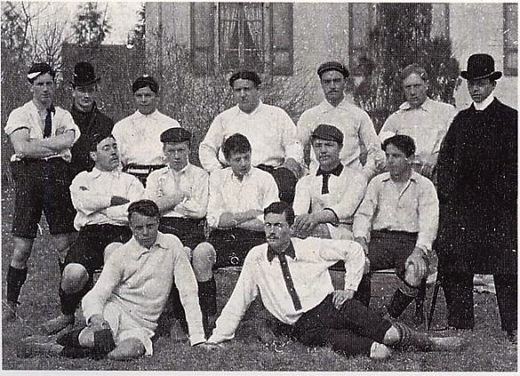 Servette F.C. 1900-01 - II Mannschaft At the back: Henneberg, Addor, Steinworth, Vrionis, Géméno, Grivaz, Loewenthal Middle: Leplace, Fuchs, Brukovski, Riedlinger, De Barrios Front: Grisar, Hentsch (cap.)